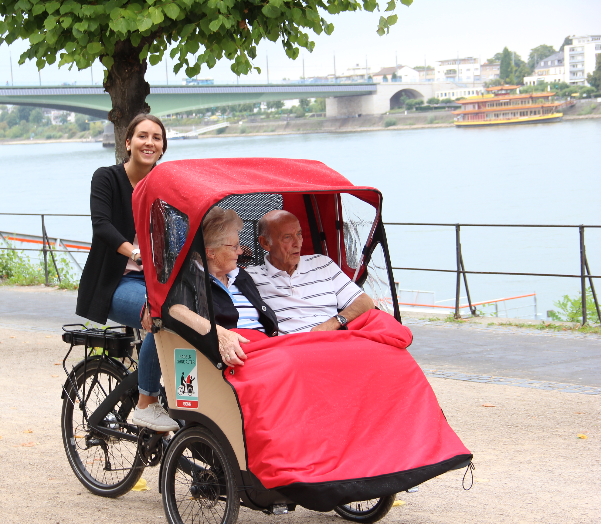 An elderly couple enjoying a ride in a Cycling-without-Age-rickshaw along the Rhine River.